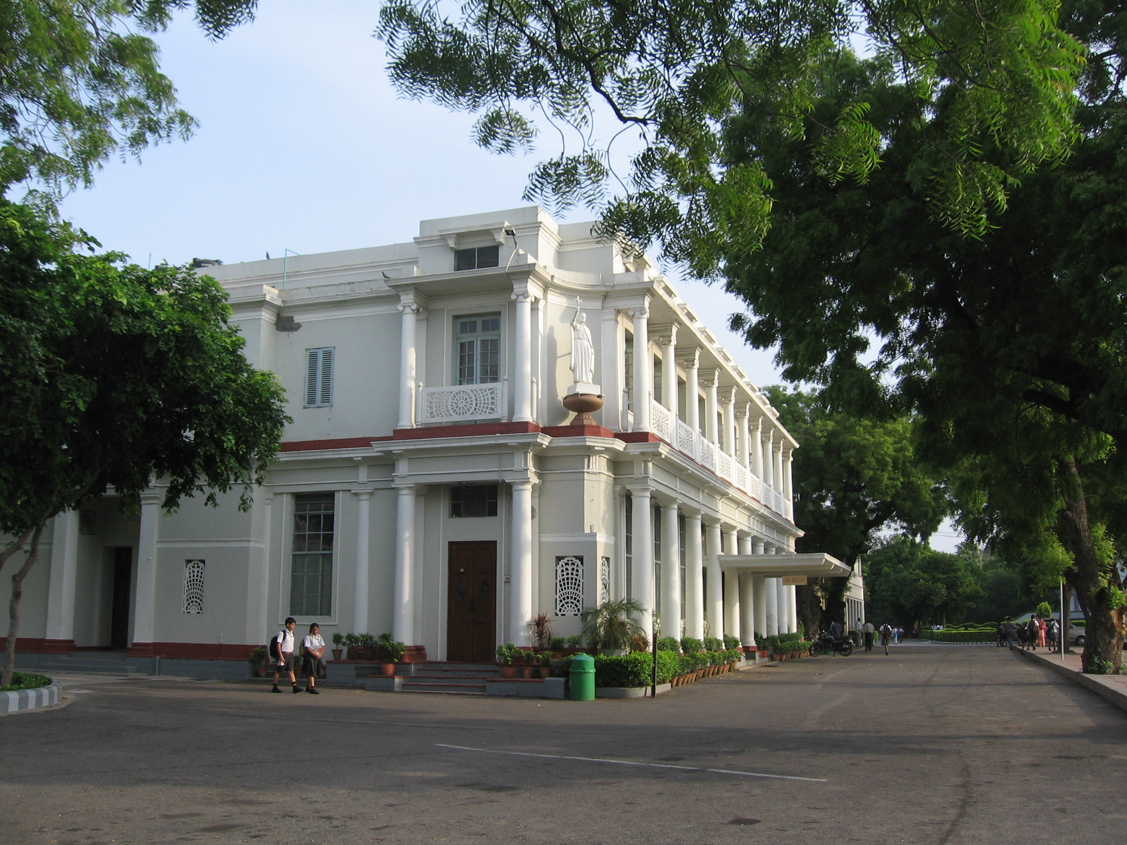 The old building of St Xavier's School, Civil Lines, Delhi, which, before 1960, was the 'Cecil Hotel'.